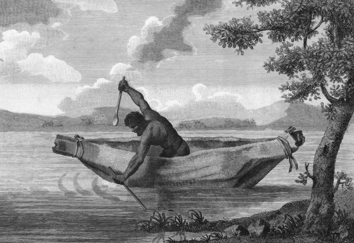 "Pimbloy: Native of New Holland in a canoe of that country", engraving, on sheet, 20.8 x 26.0 cm.